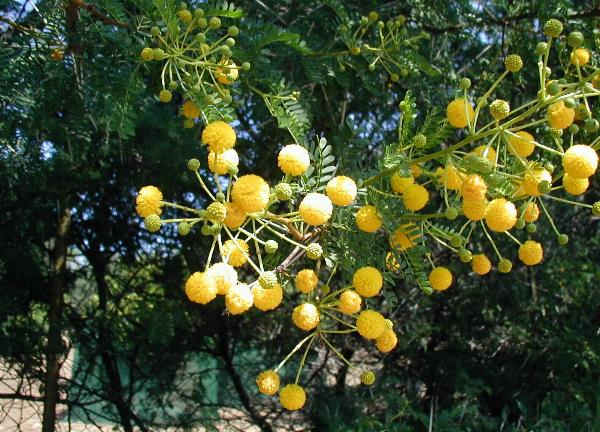 Name Sweet thorn, Acacia karroo Family Fabaceae Acacia karroo: Flowering tree near Île Rousse, Corsica.